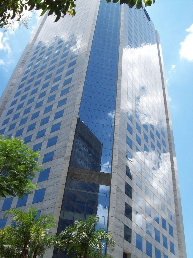 Hilton Hotel of São Paulo City, Brazil.